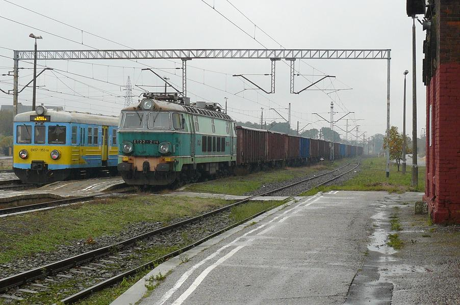 Łask Railway Station PL